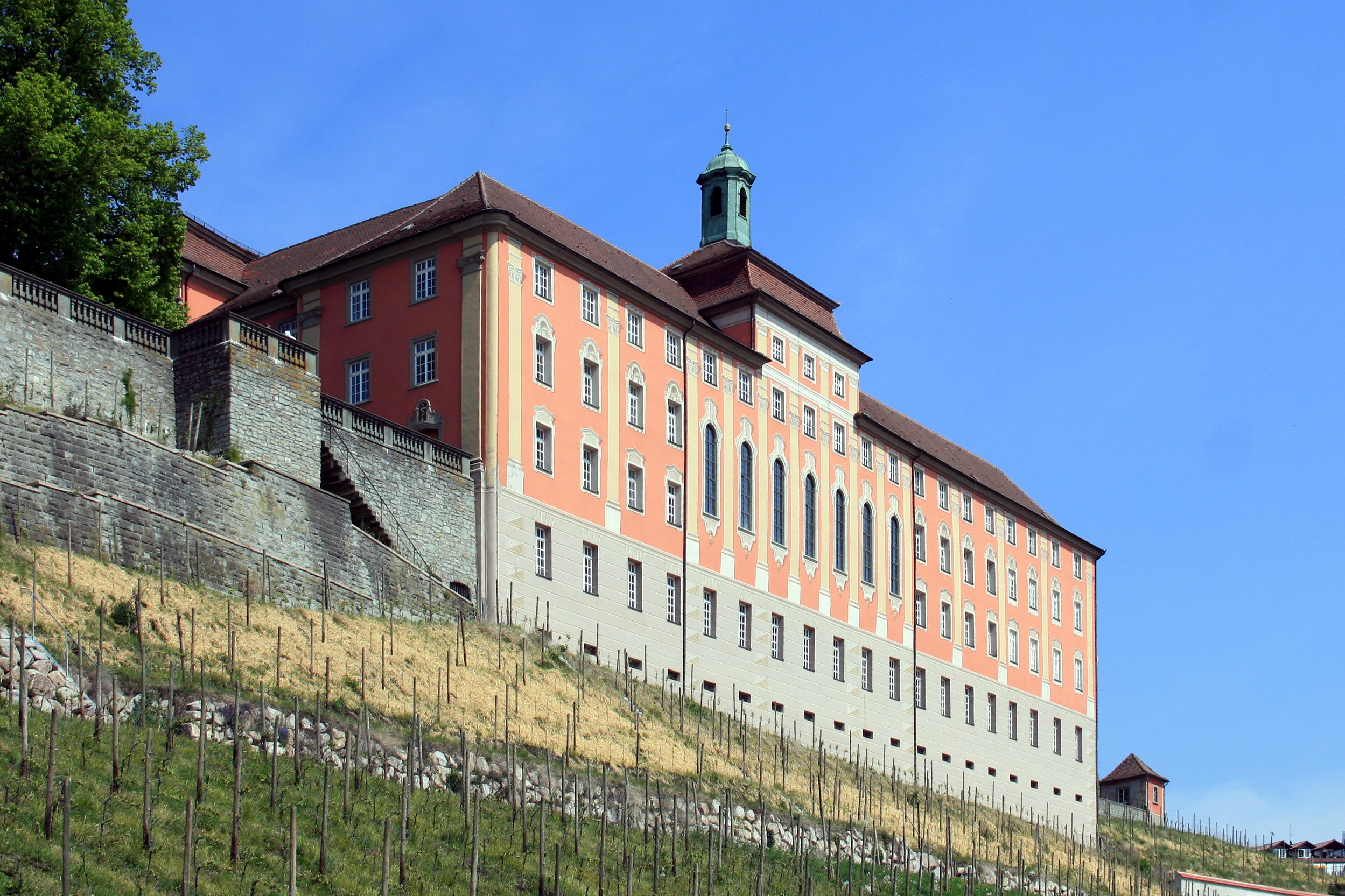 Droste-Hülshoff-Gymnasium of Meersburg